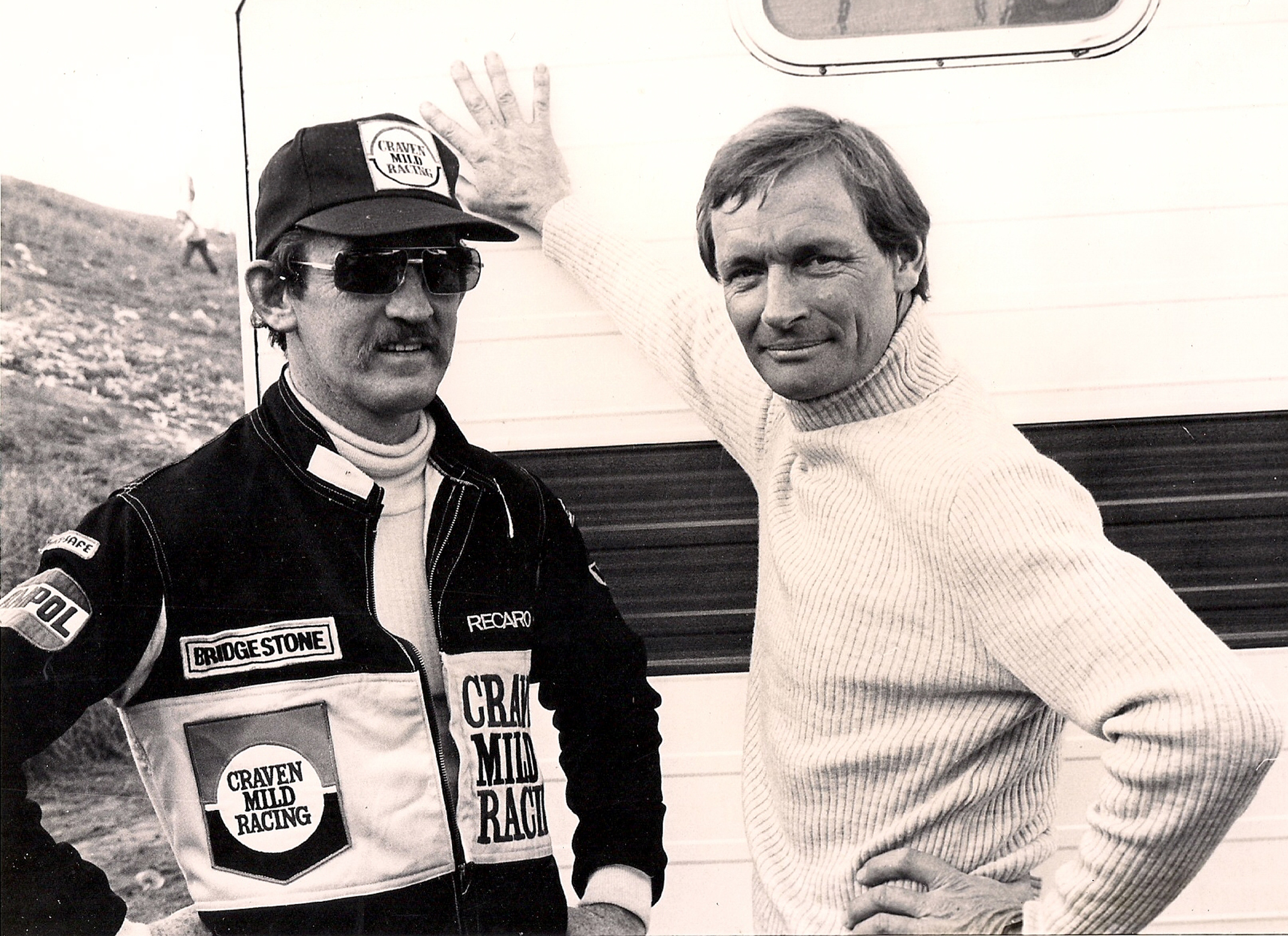 Allan Grice-John Leffler 1978 2nd place Bathurst